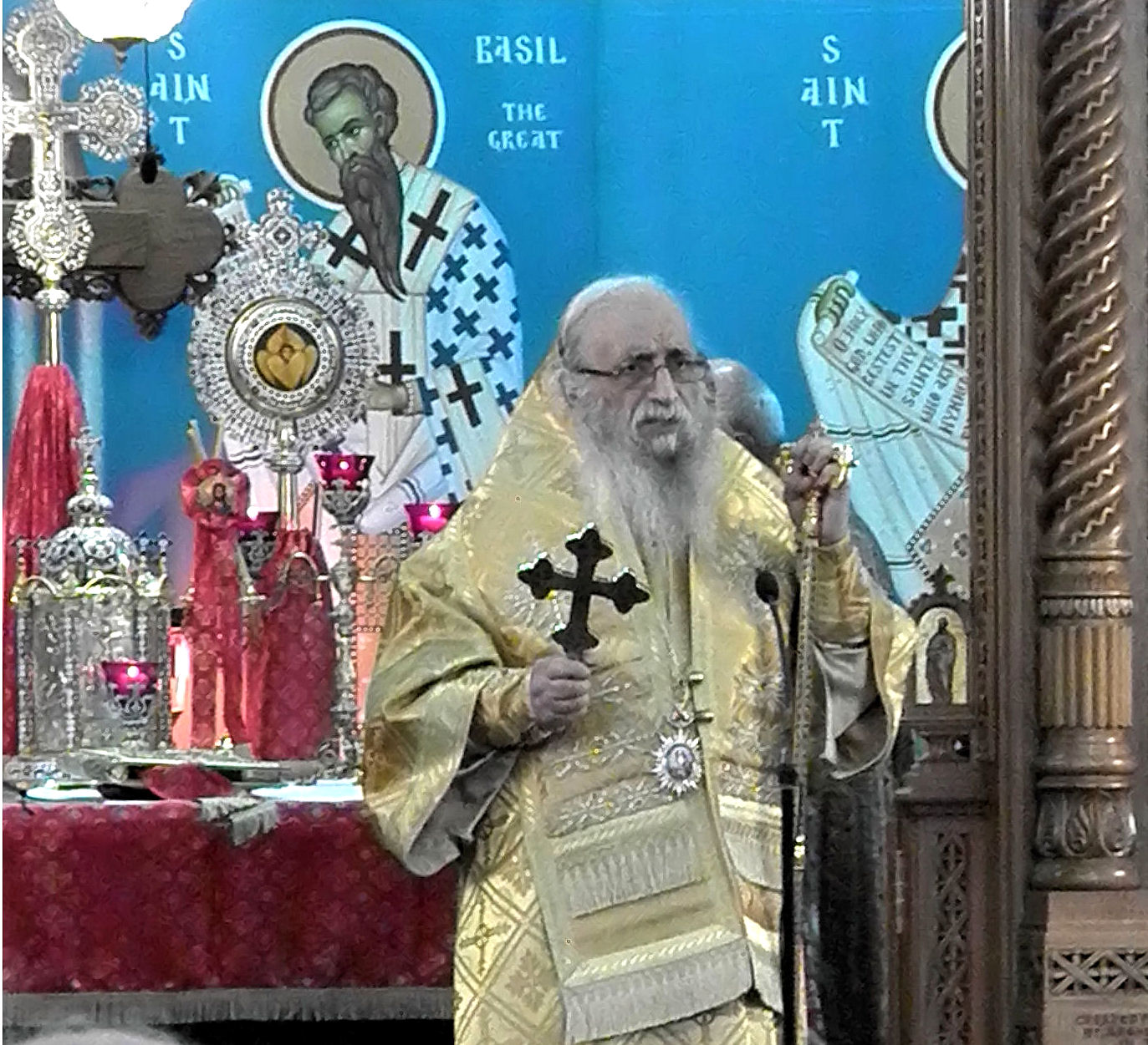 Metropolitan Ephraim (Kyriakos) of Tripoli, with a blessing cross. St. Elias Antiochian Orthodox Cathedral, Ottawa, Ontario.